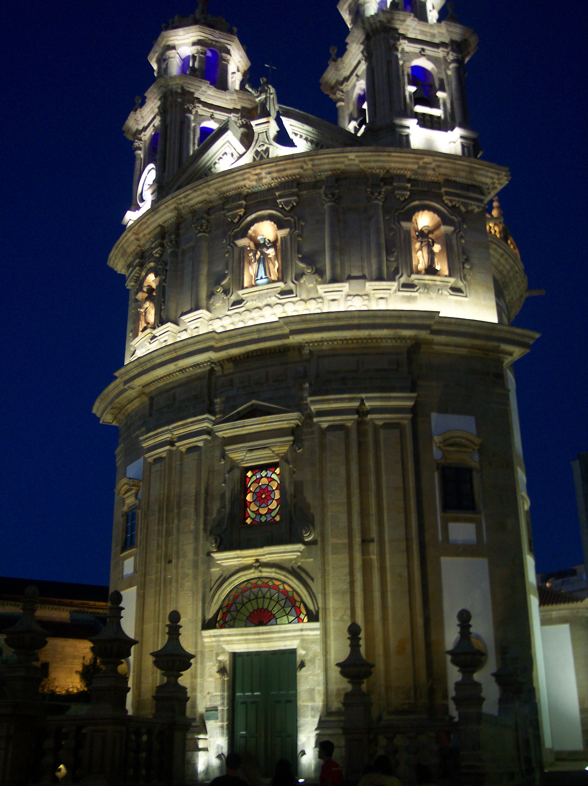 Chappel of the Peregrina Virgin (Pontevedra)